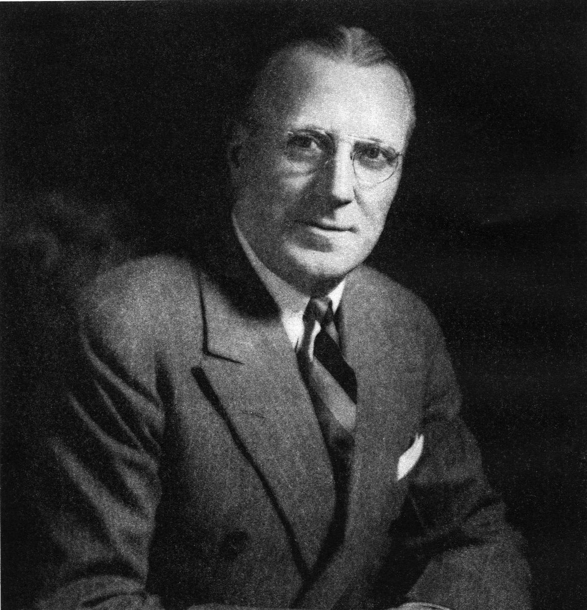 Jock Sutherland, legendary coach of the Pitt Panther football team